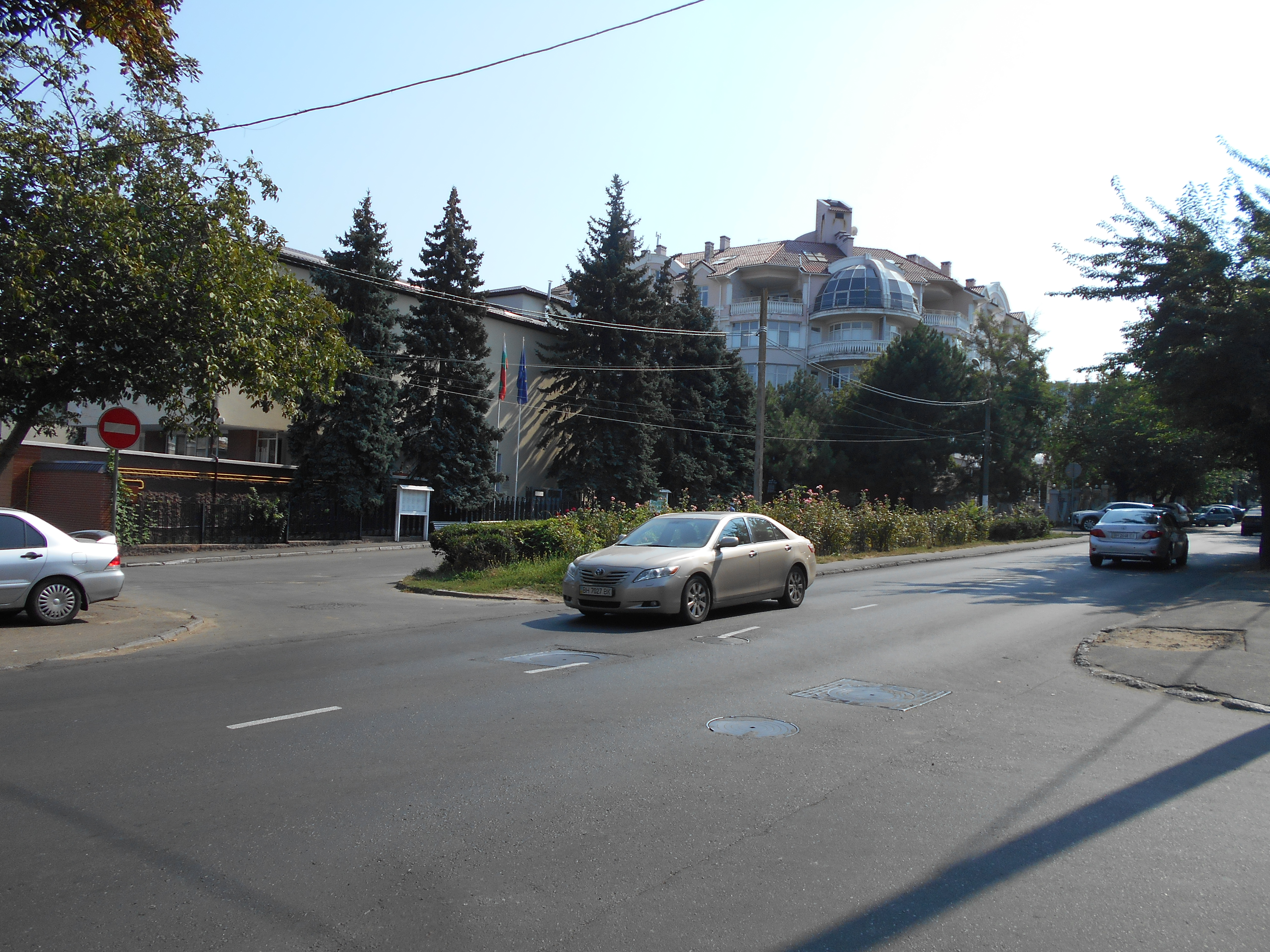 Consulate General of Bulgaria in Odessa, Ukraine